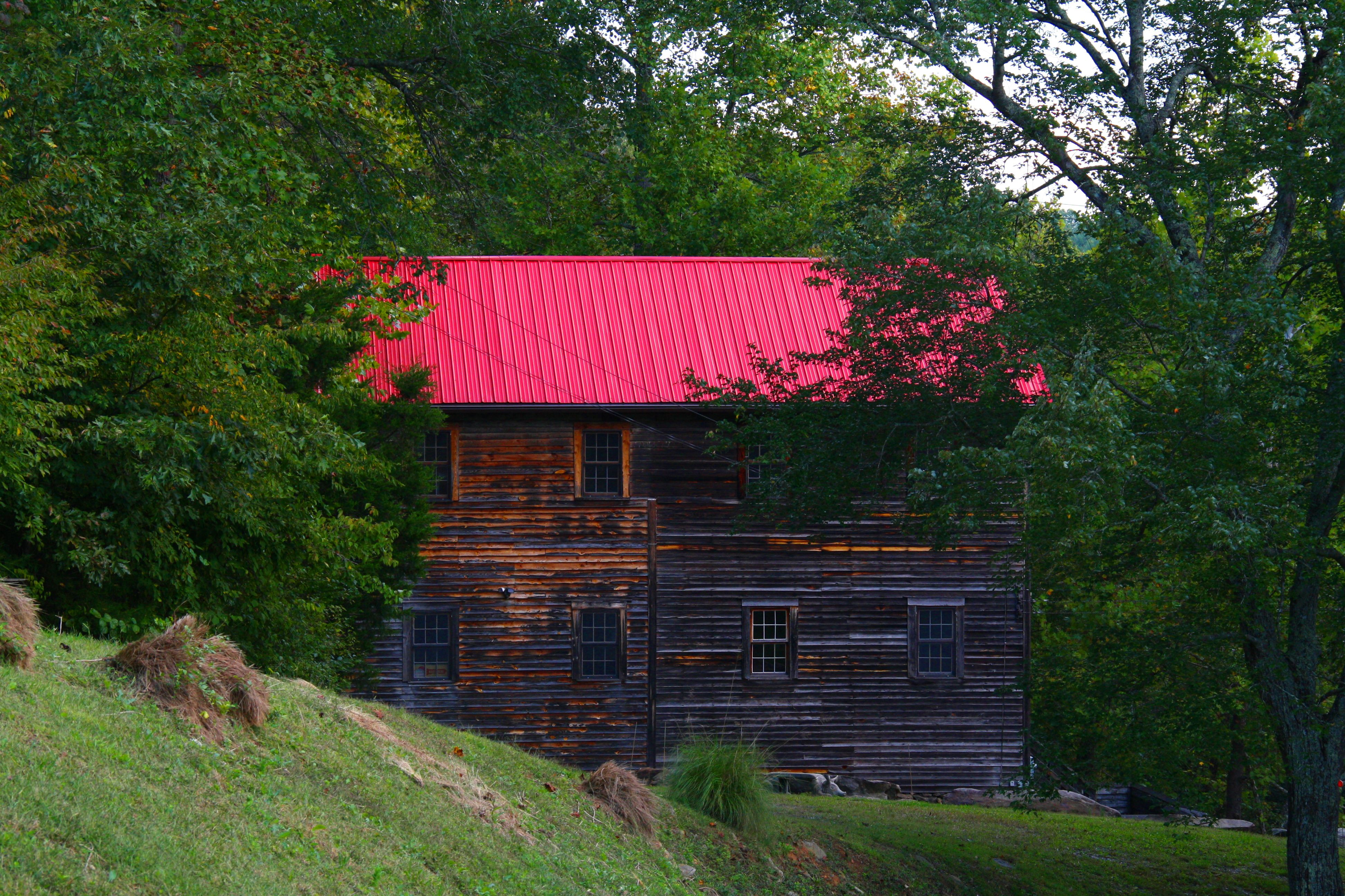 This old mill has not been used for milling for many years, but has been converted into a private residence and in fact is for sale as of 9-30-14.